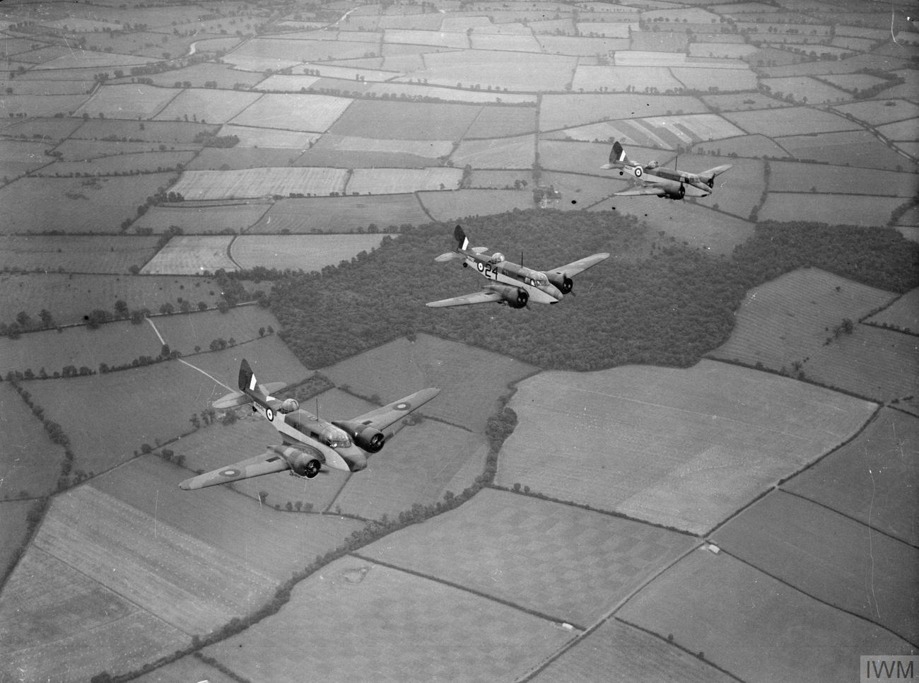 Aircraft of the Royal Air Force 1939-1945- Airspeed As 10 Oxford.